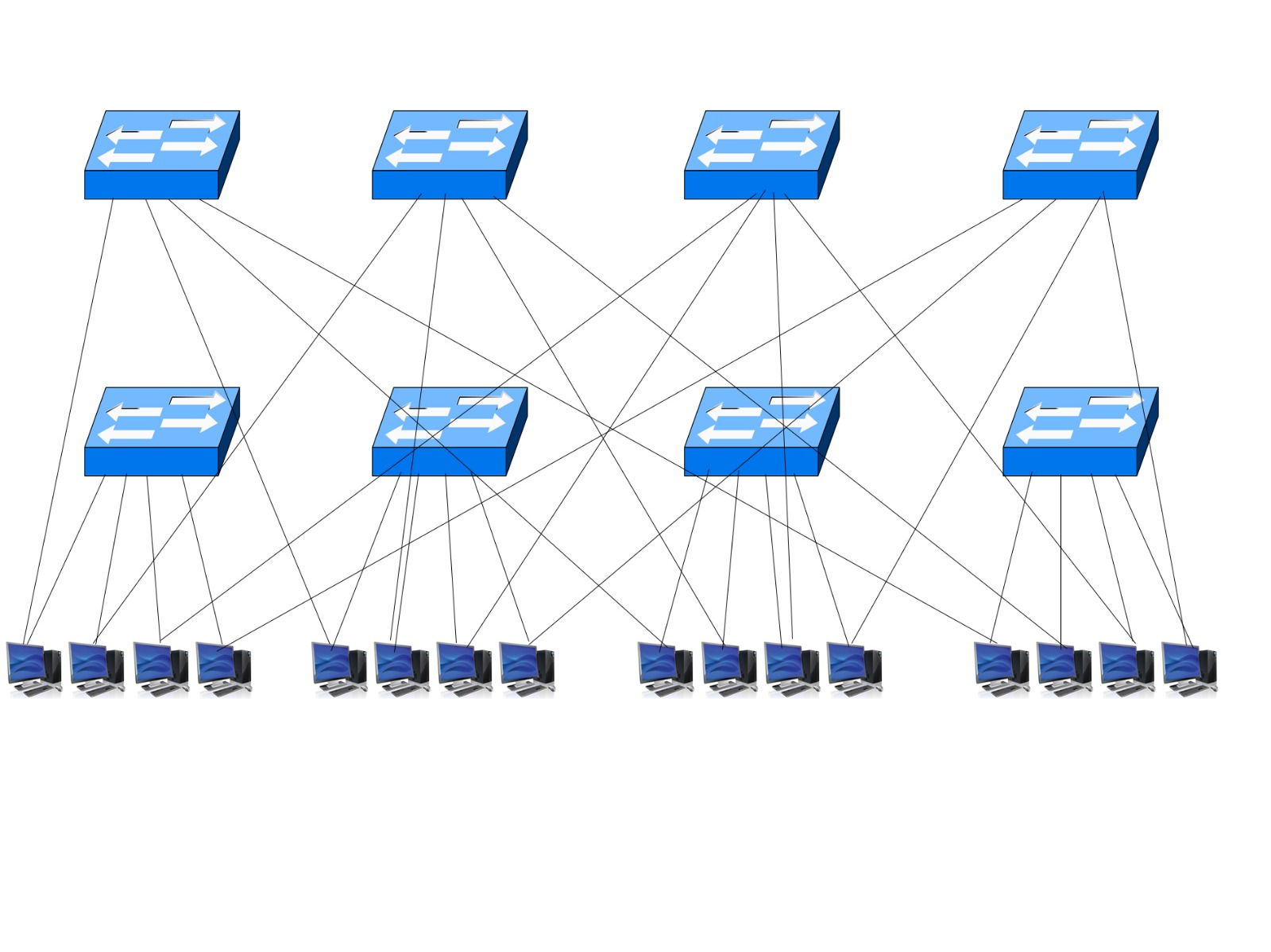 topologia di rete per data center bcube